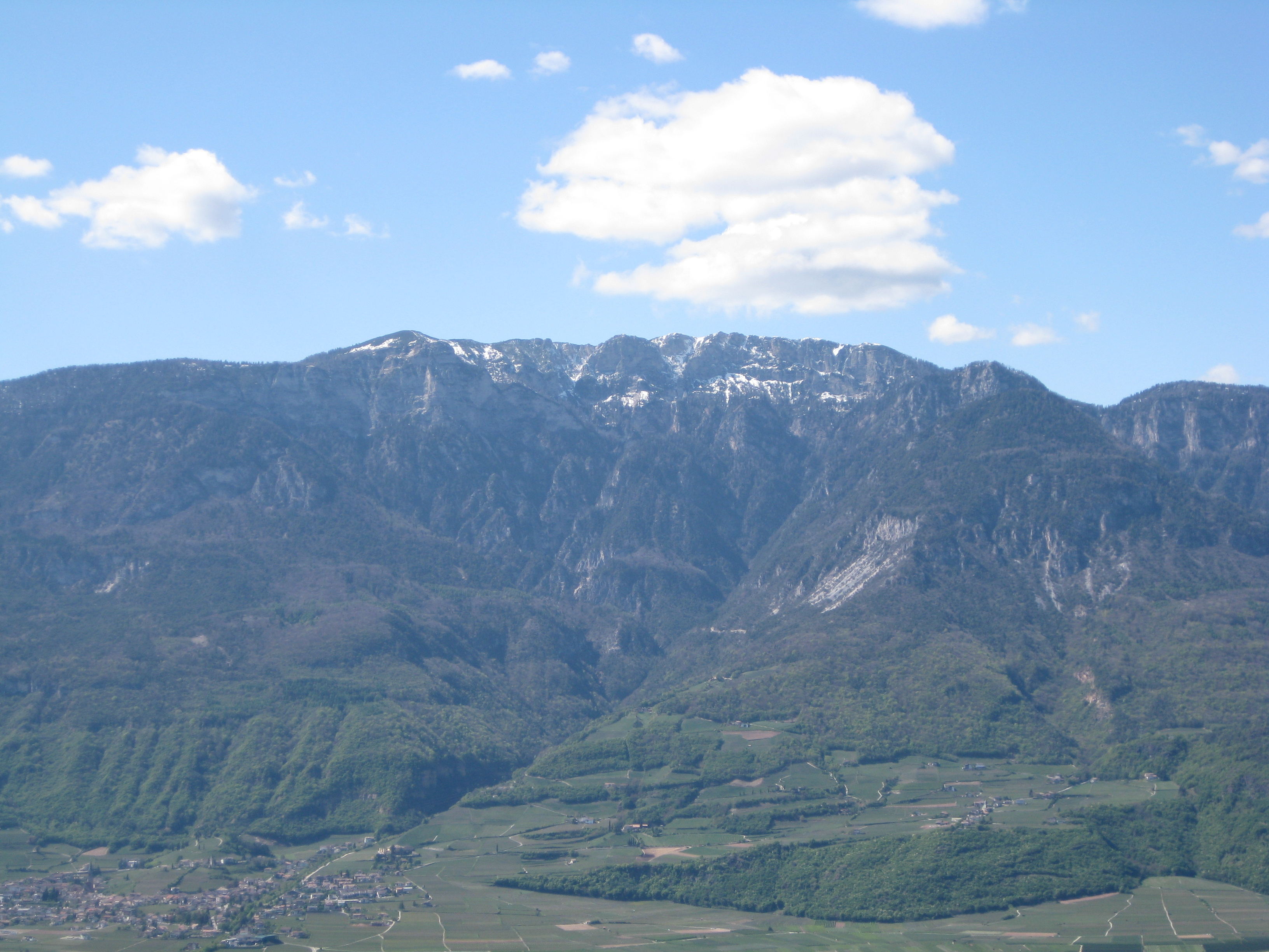 The Roen as seen from Karnol